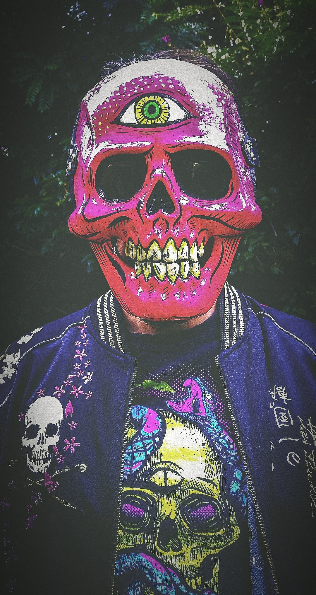 Guatemalan artist and illustrator Bernal Aguilar disguised as his alternate persona Tokebi